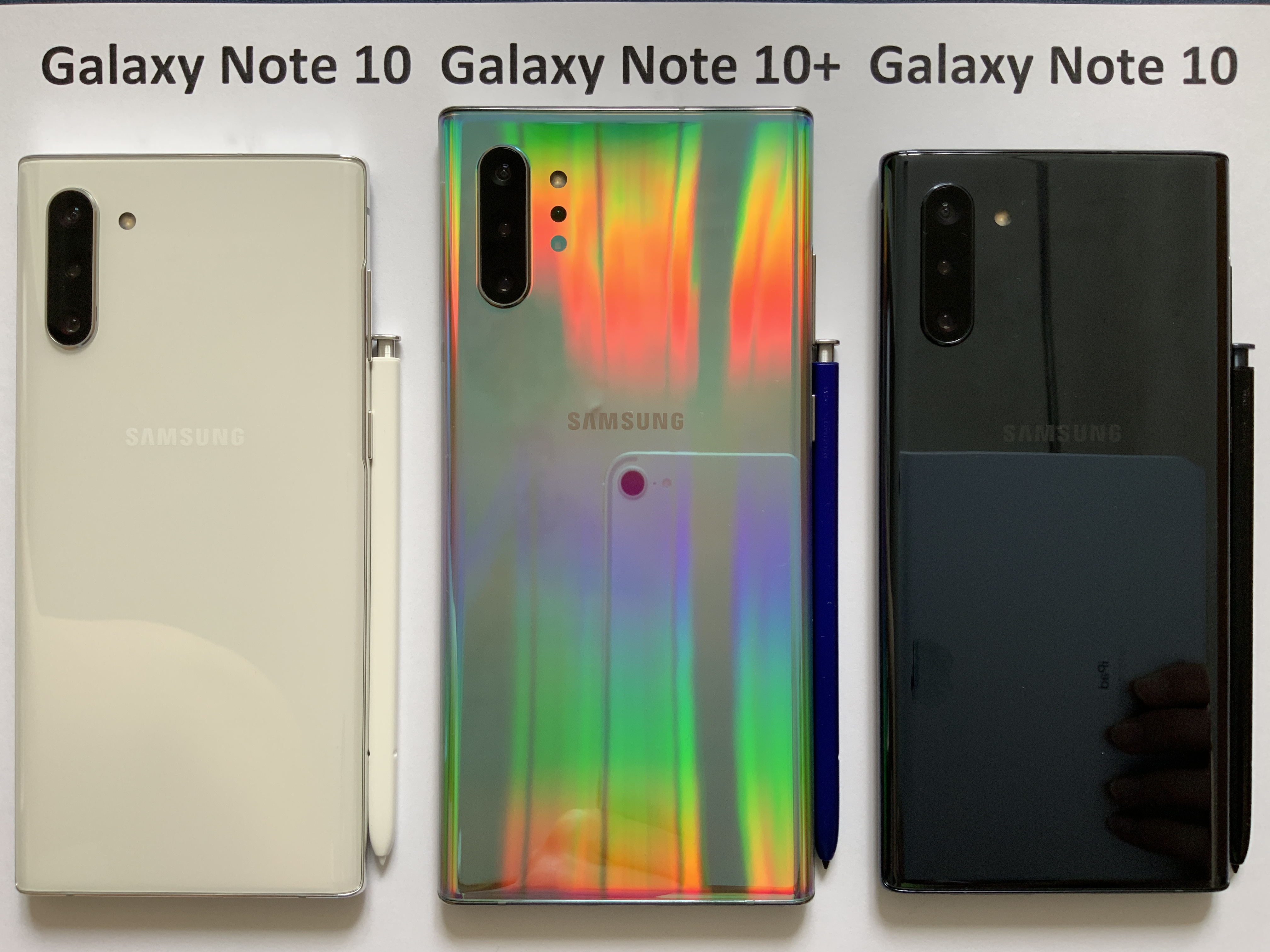 SAMSUNG Galaxy Note10 SAMSUNG Galaxy Note10 5G SAMSUNG Galaxy Note10+ SAMSUNG Galaxy Note10+ 5G